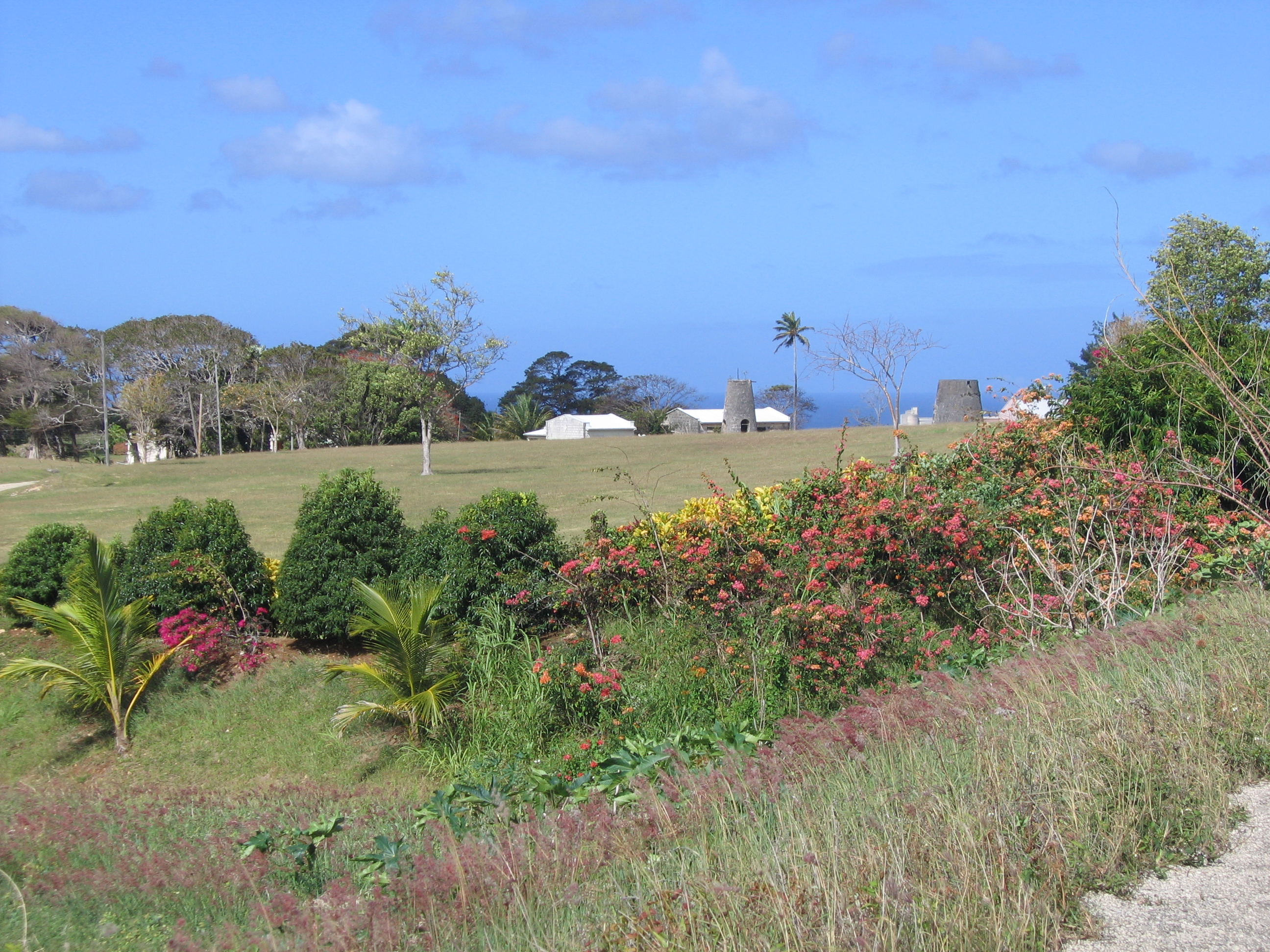 Wildflowers along highway in Saint Peter, Barbados. Ruined mill towers in the distance.